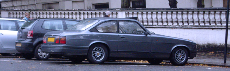 Bristol 603 motor car